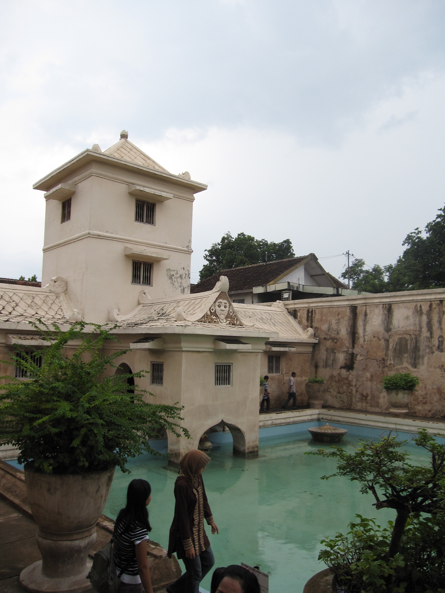 Taman Sari water palace in Yogyakarta.